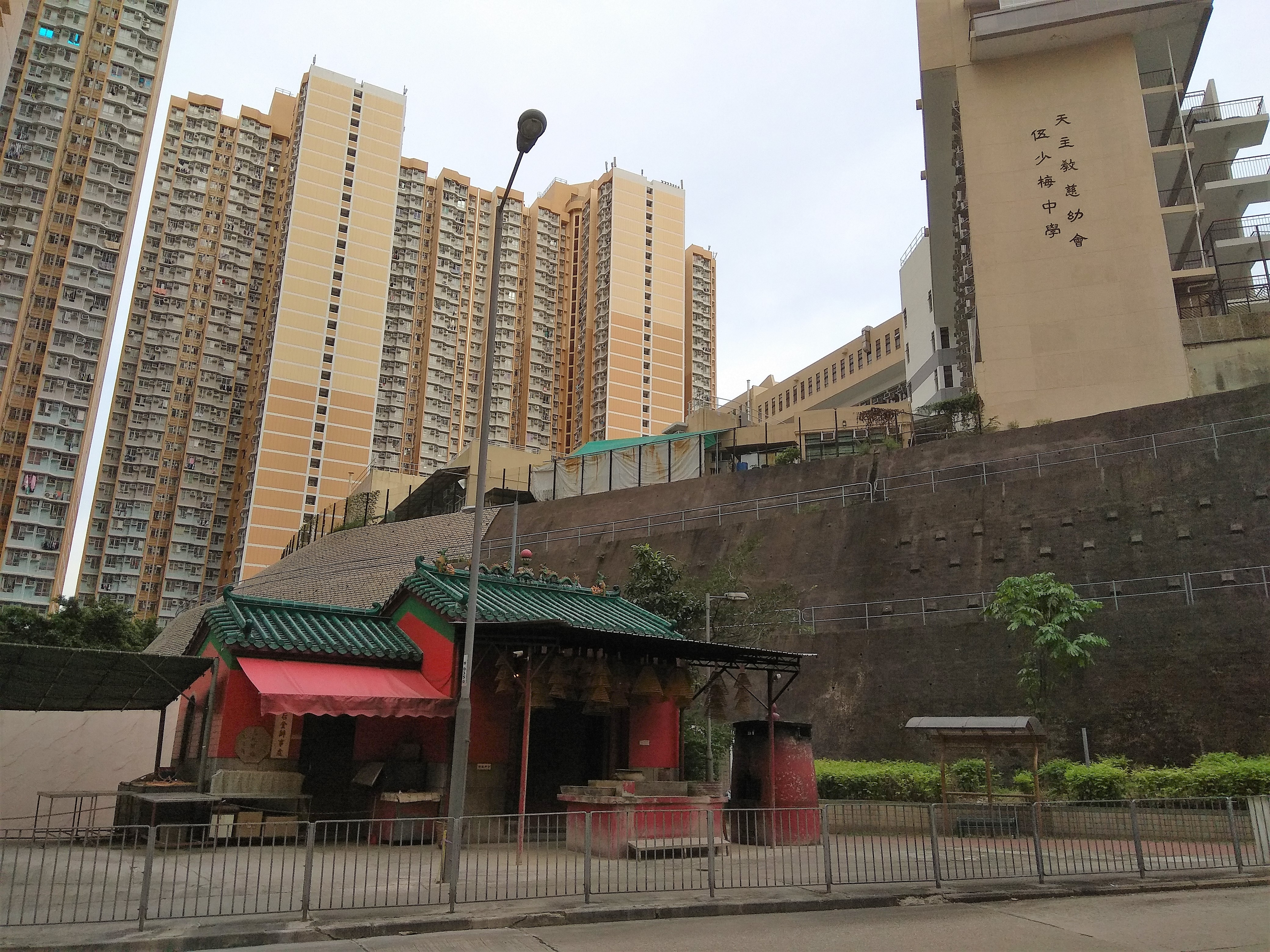 Tin Hau Temple, Tai Wo Hau